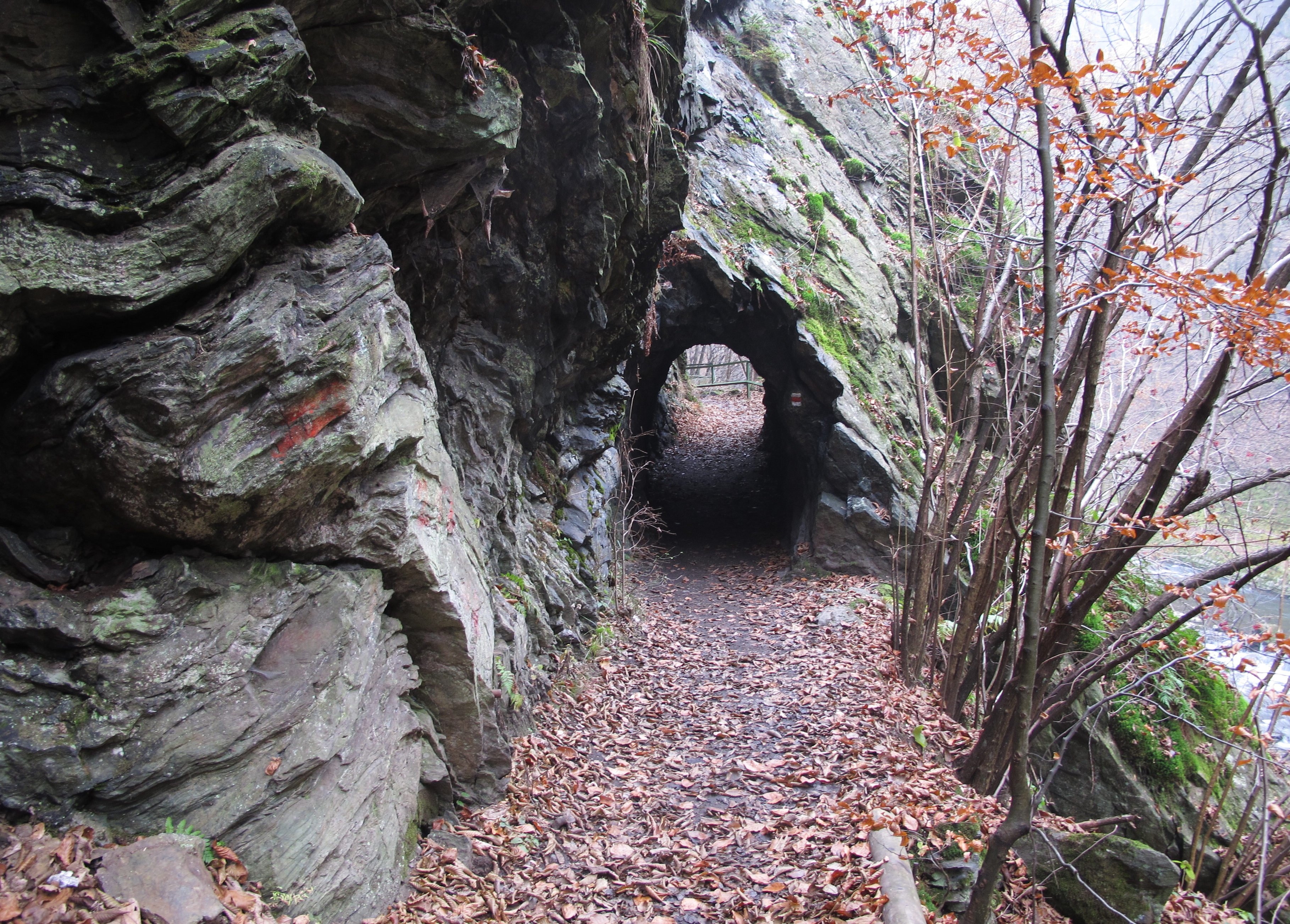 Natural reserve Údolí Jizery u Semil a Bítouchova near town Semily (in Semily District - Czech Republic)